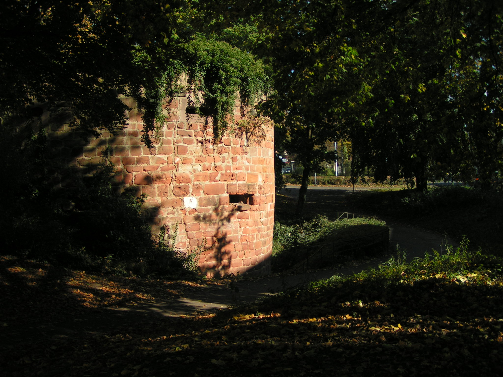 City wall of Trier, Germany